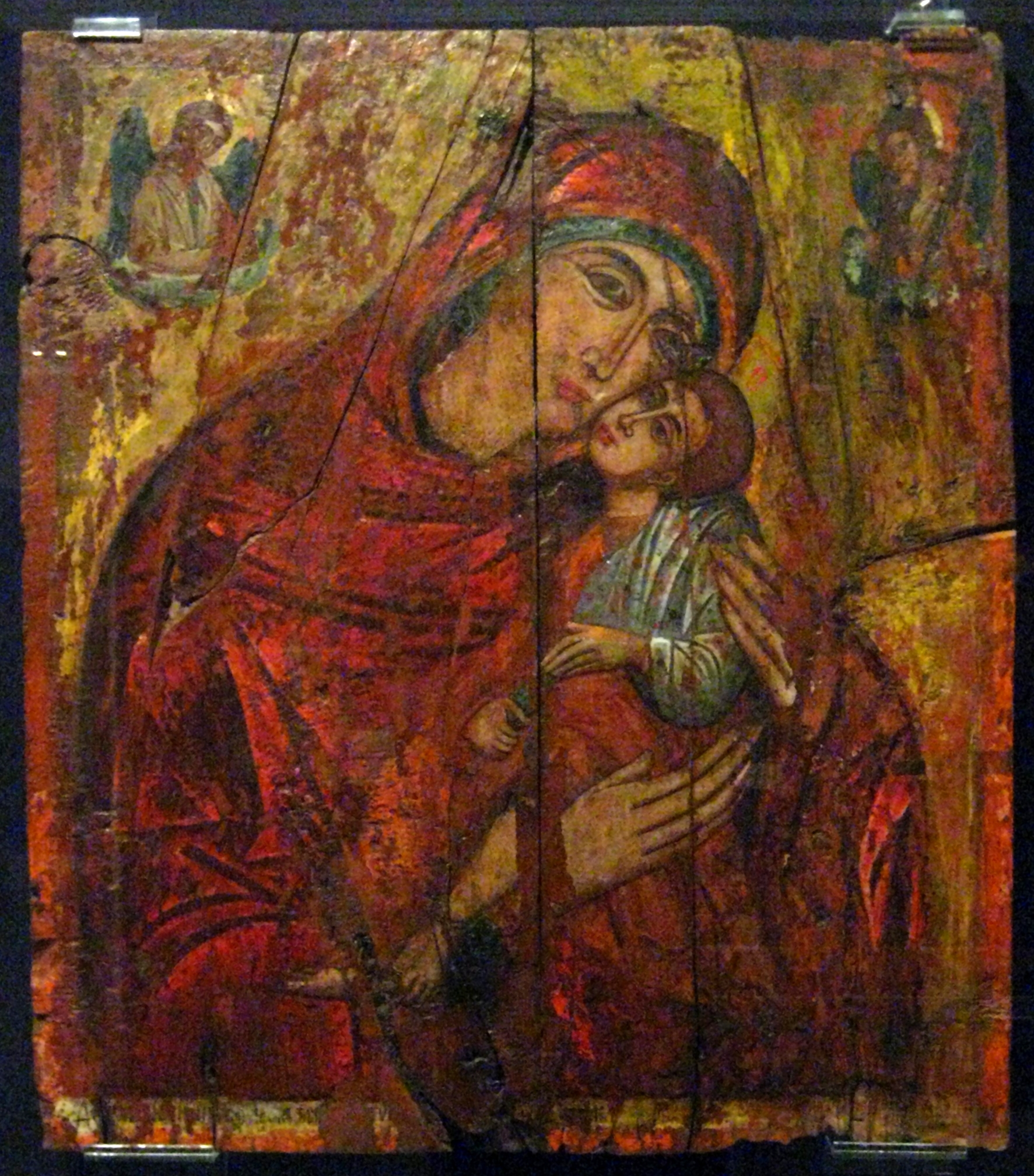 Eleusa. 16th c. (with 18th century levels). A.G.Makris collection